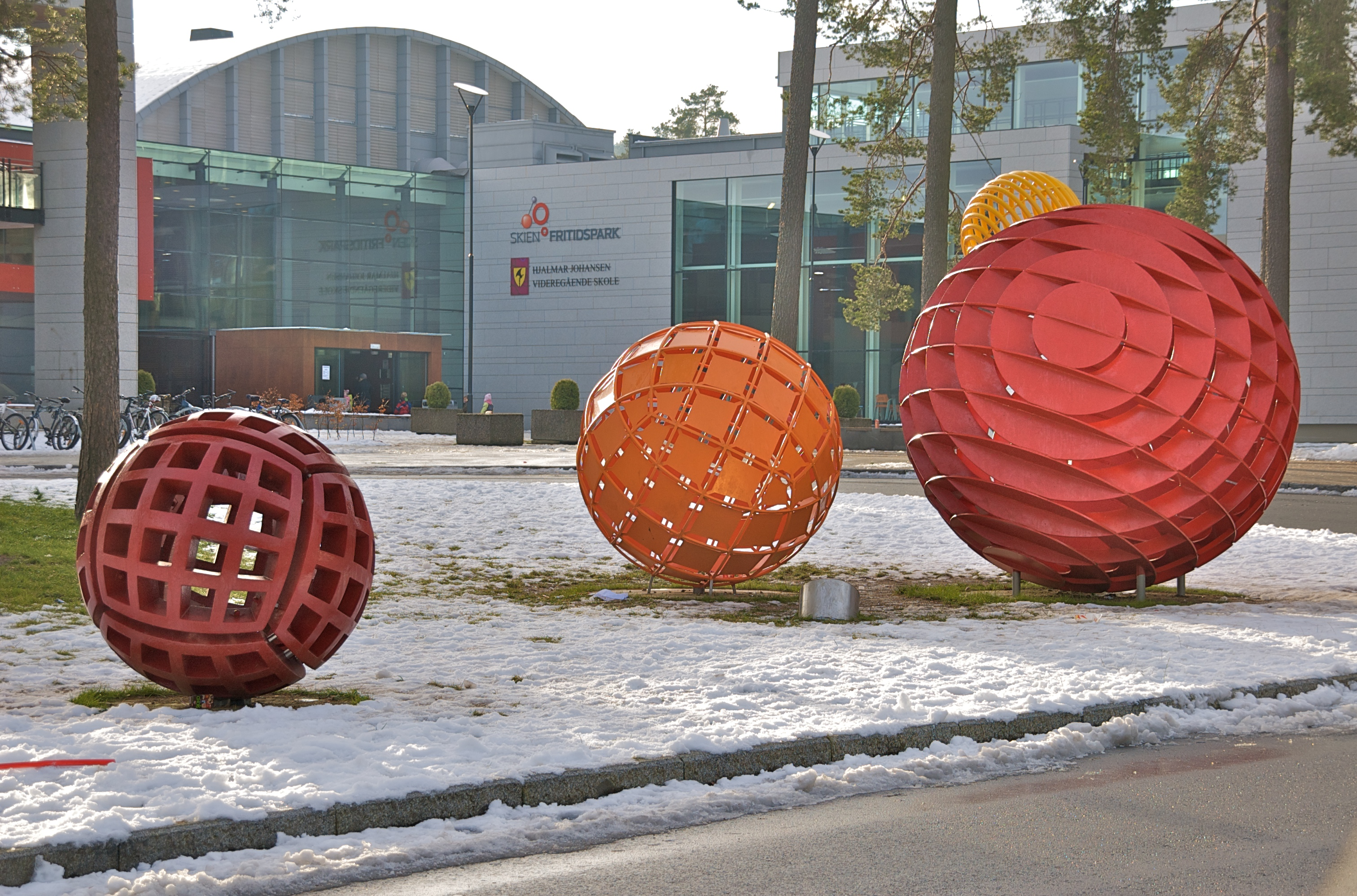 Skien fritidspark, main entrance.